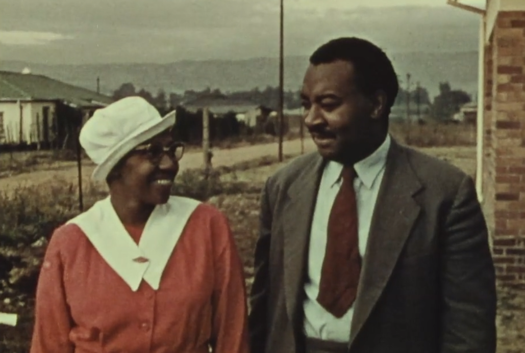 Susan and WF Nkomo at home